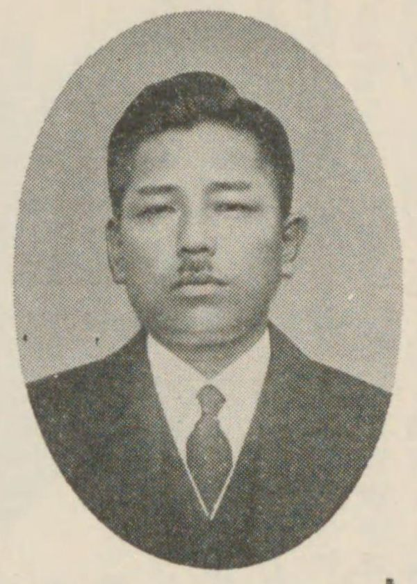 Chōshō Miyara